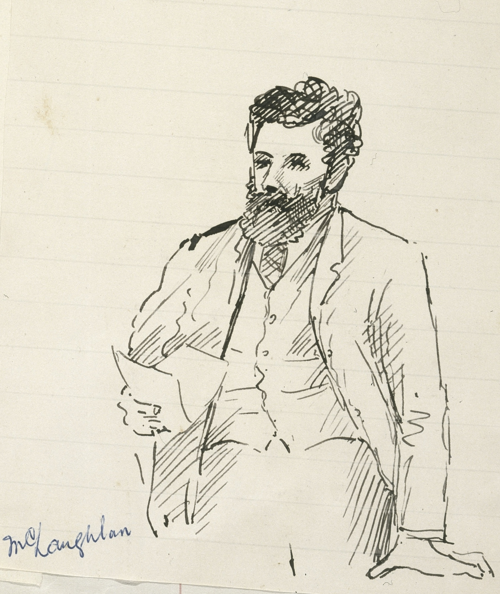 Caricatures of four parliamentarians. Sketch in black ink over pencil of Major William Jukes Stewart, John Duthie, Alexander Wilson Hogg and John McLachlan. Sketch is on p168 of the scrapbook.